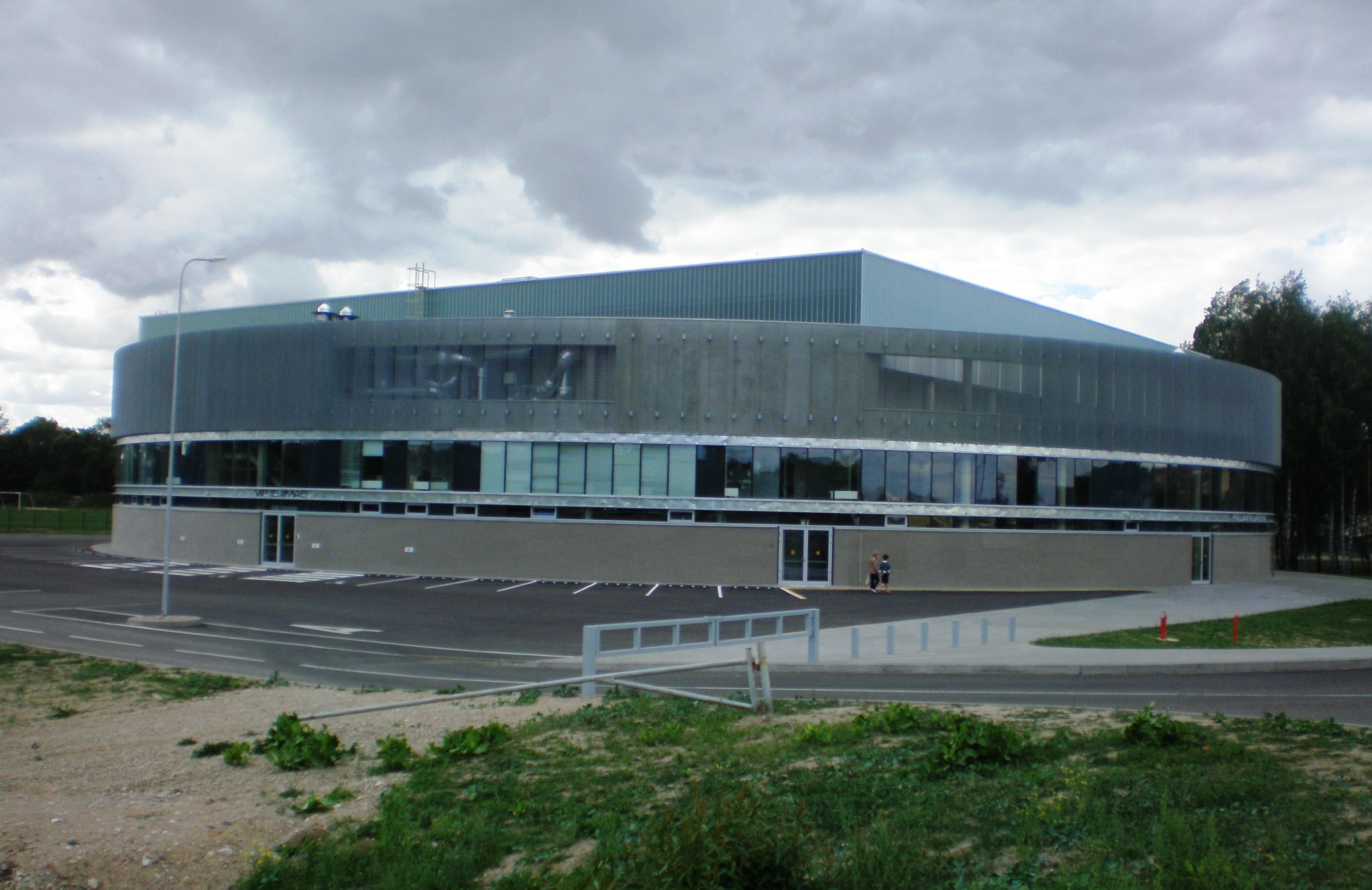 Photo of Kėdainiai arena.